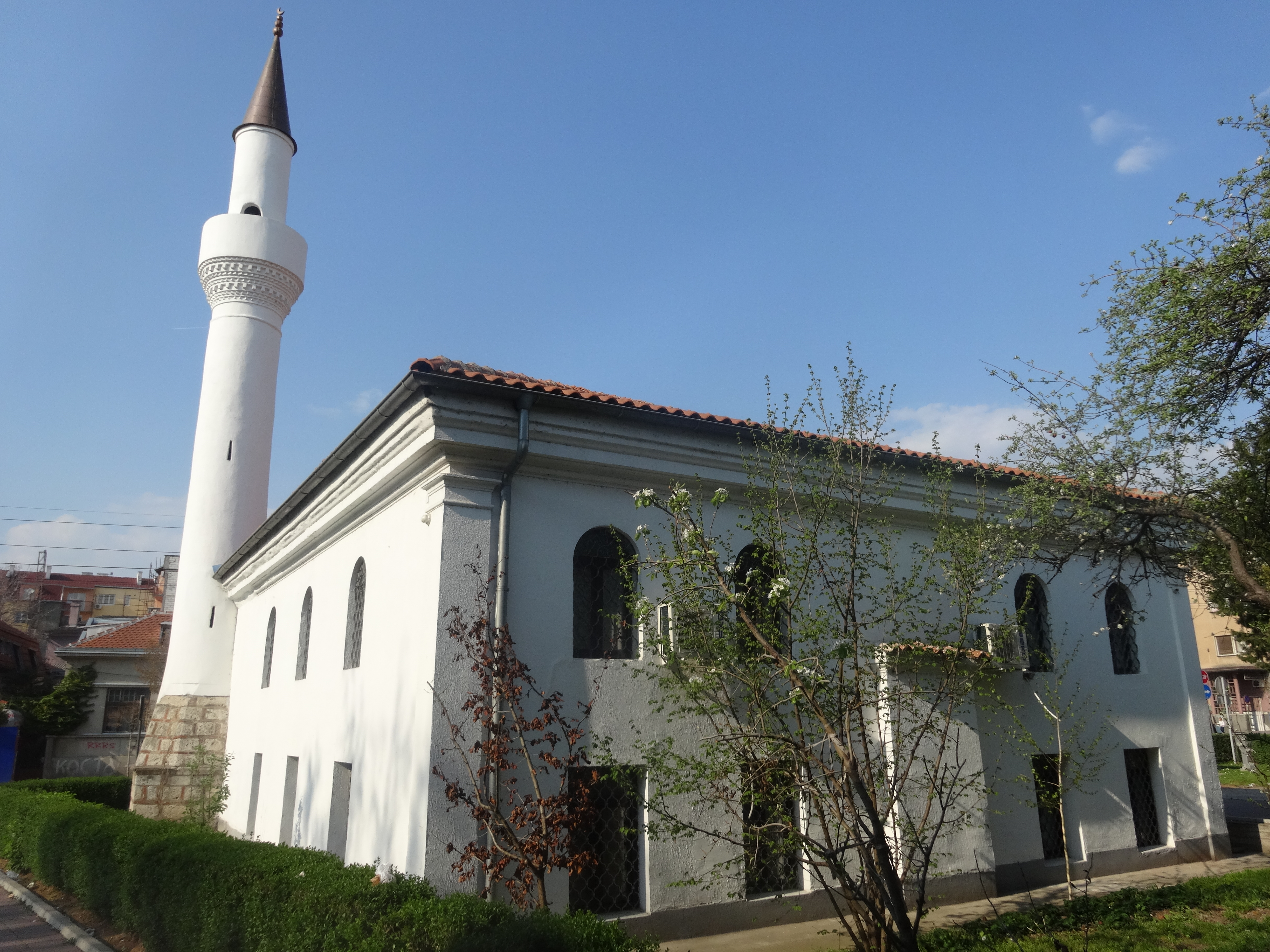 Islam-aga's Mosque, Nis, Serbia.